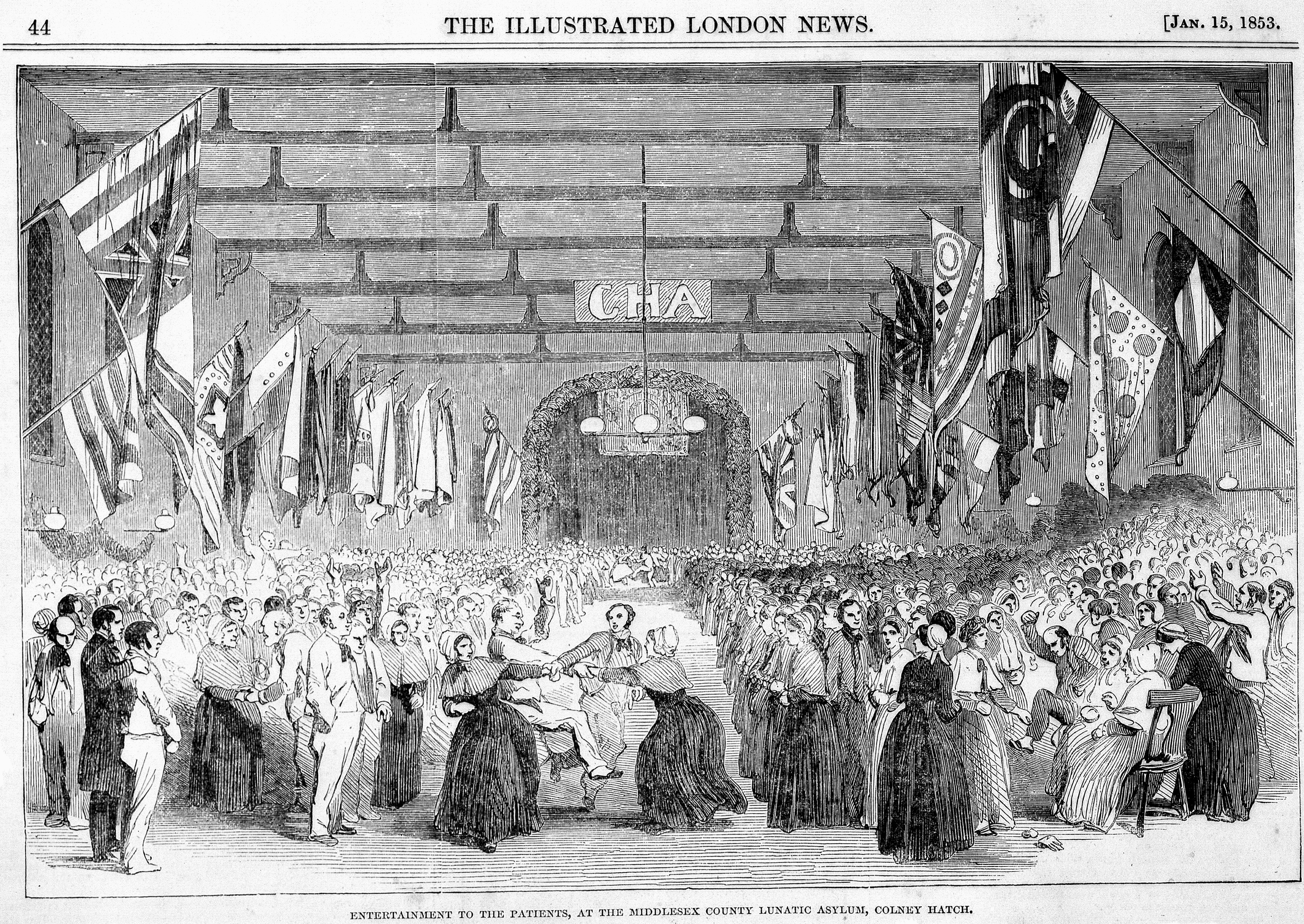 Entertainment to the patients at the Middlesex County Lunatic Asylum, Colney Hatch. General Collections Keywords: Institutions; Hospitals